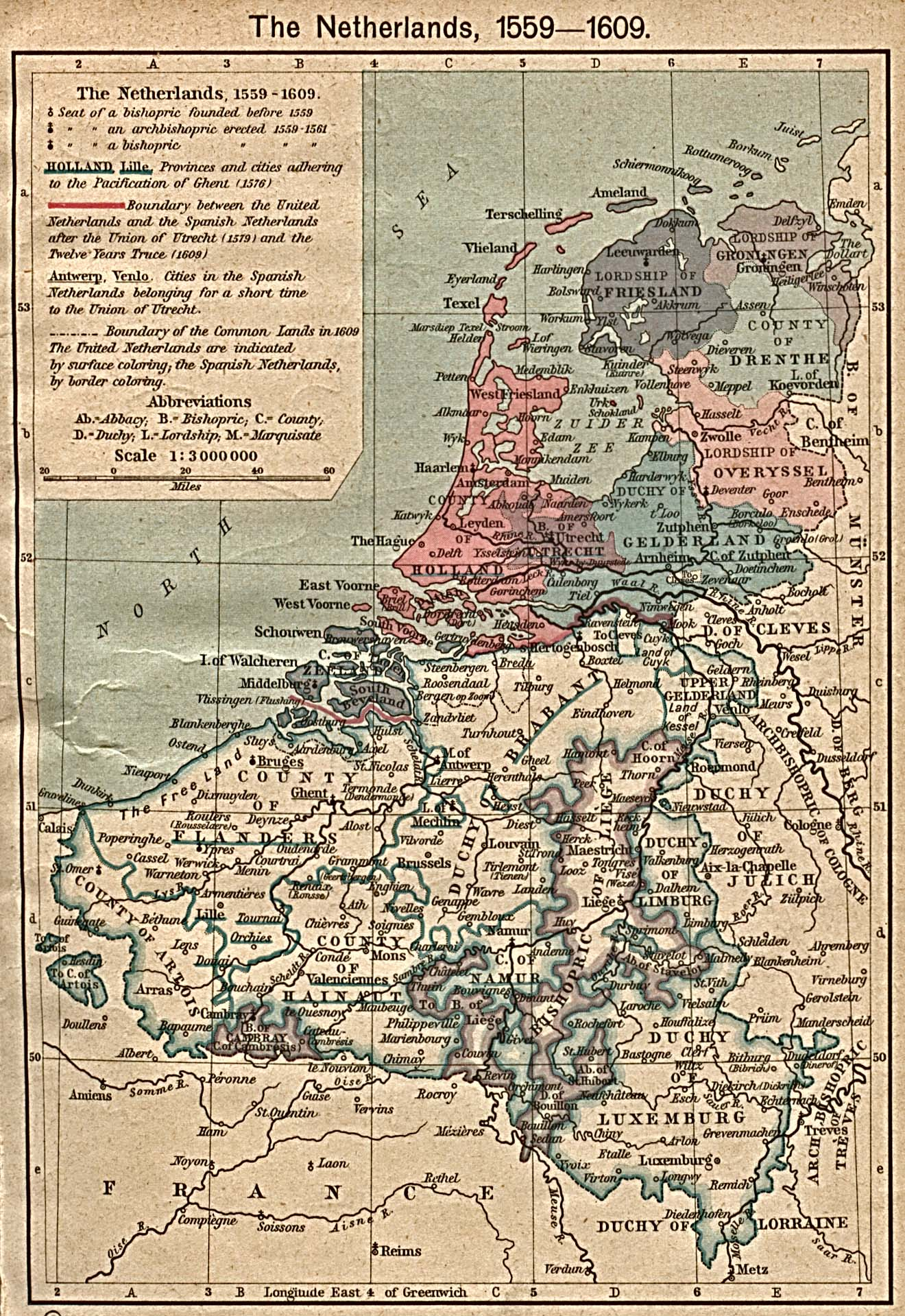 The Netherlands 1559-1609. From The Historical Atlas by William R. Shepherd, 1923.